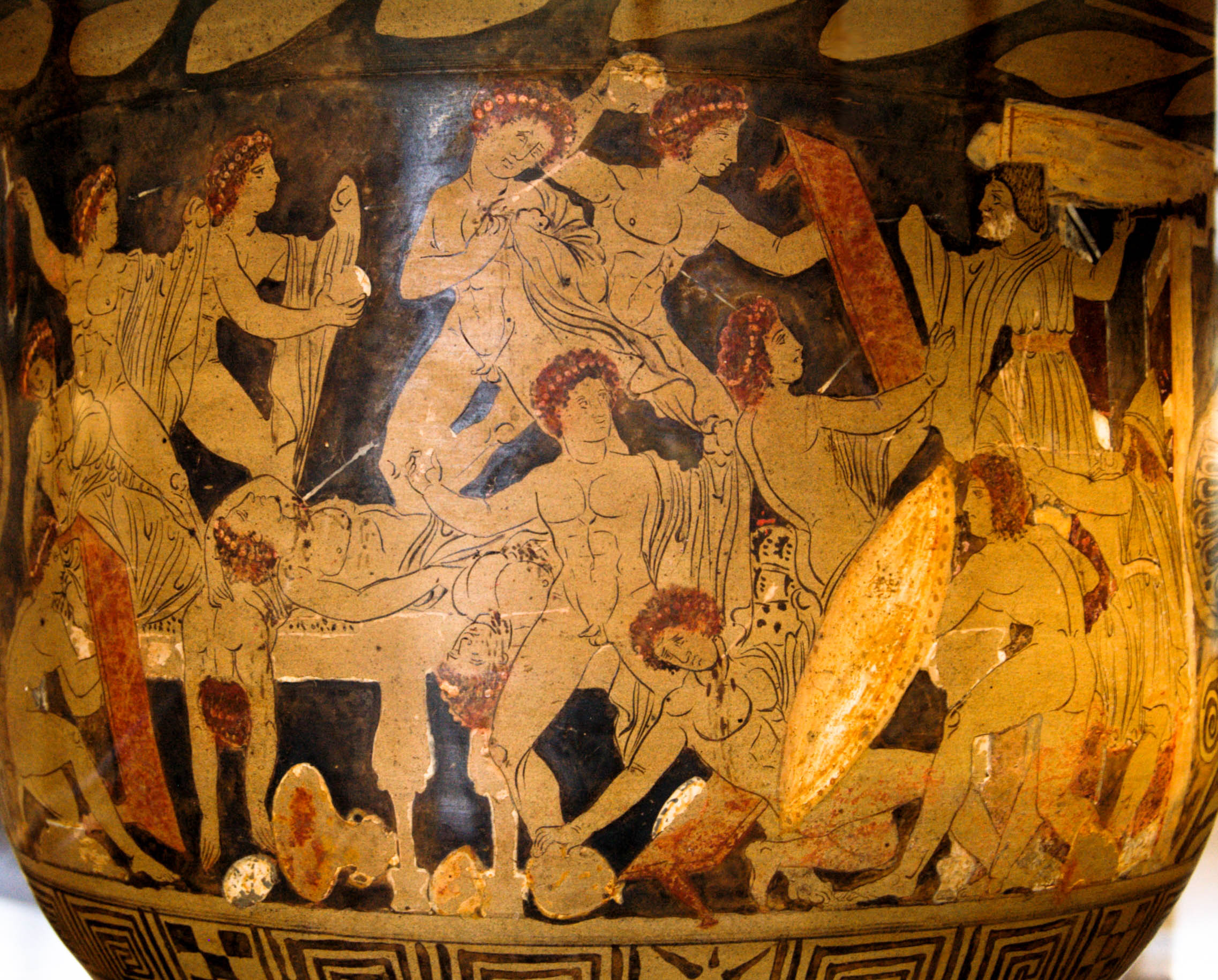 Mnêstêrophonía: slaughter of the suitors by Odysseus, Telemachus and Eumeus (right). Side A from a Campanian (Capouan?) red-figure bell-krater, ca. 330 BC.